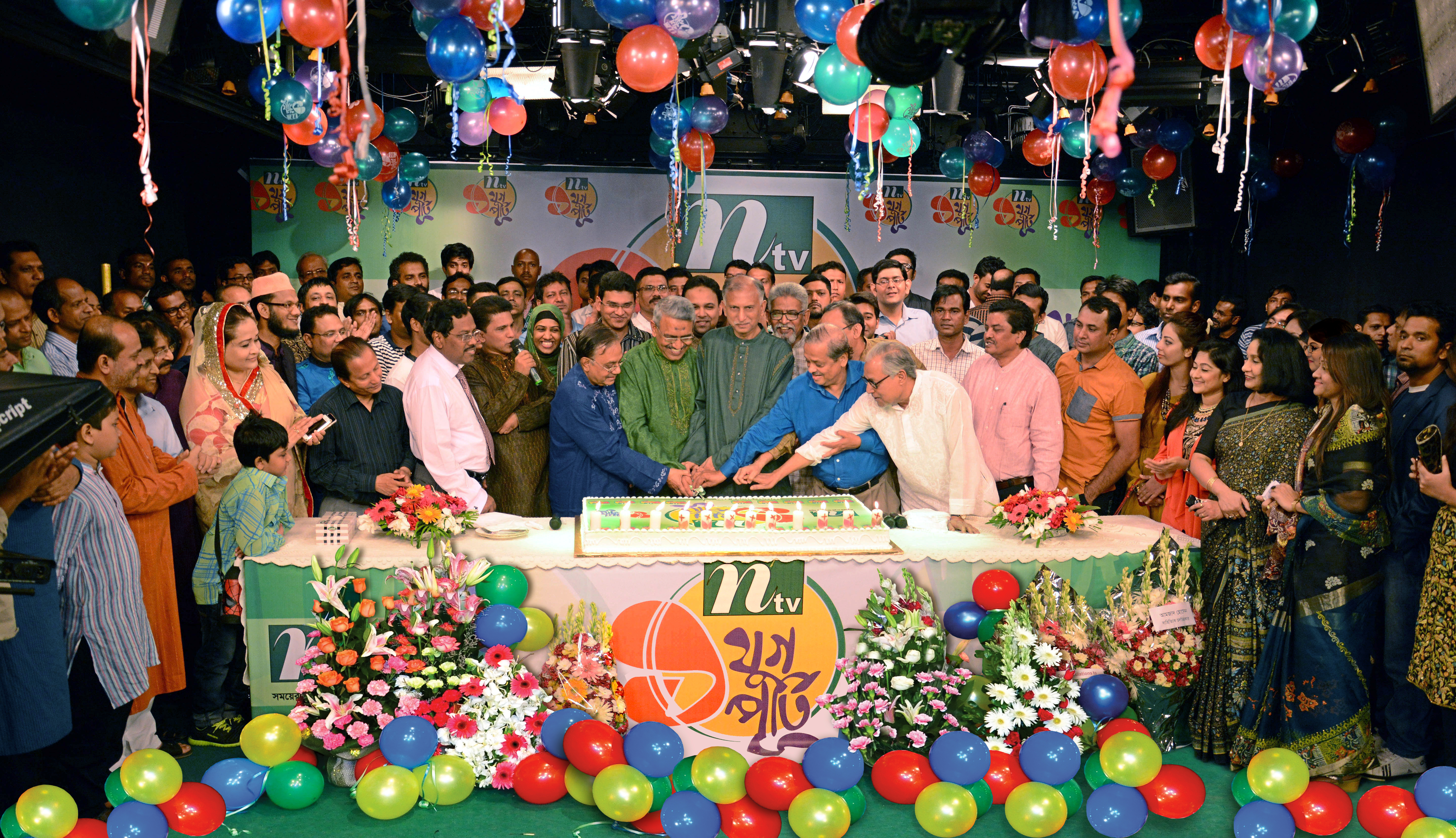 Mohammad Mosaddak Ali, Chairman and Managing Director of International Television Channel Ltd (NTV), along with the country’s prominent personalities cutting cake marking the 12thfounding anniversary of NTV at its office on July 3 in 2015.